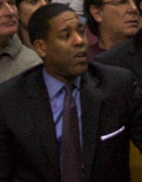 University of Minnesota men's basketball asst. coach Vince Taylor in 2009.